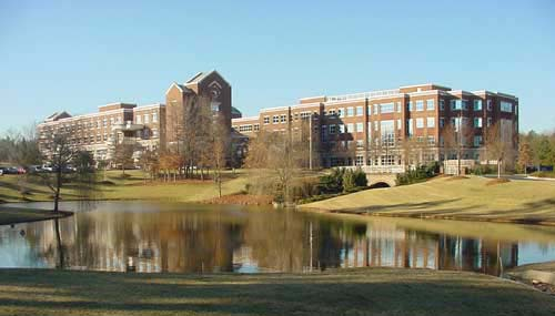 Presbyterian Hospital Matthews